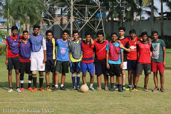 Students Sports Competition